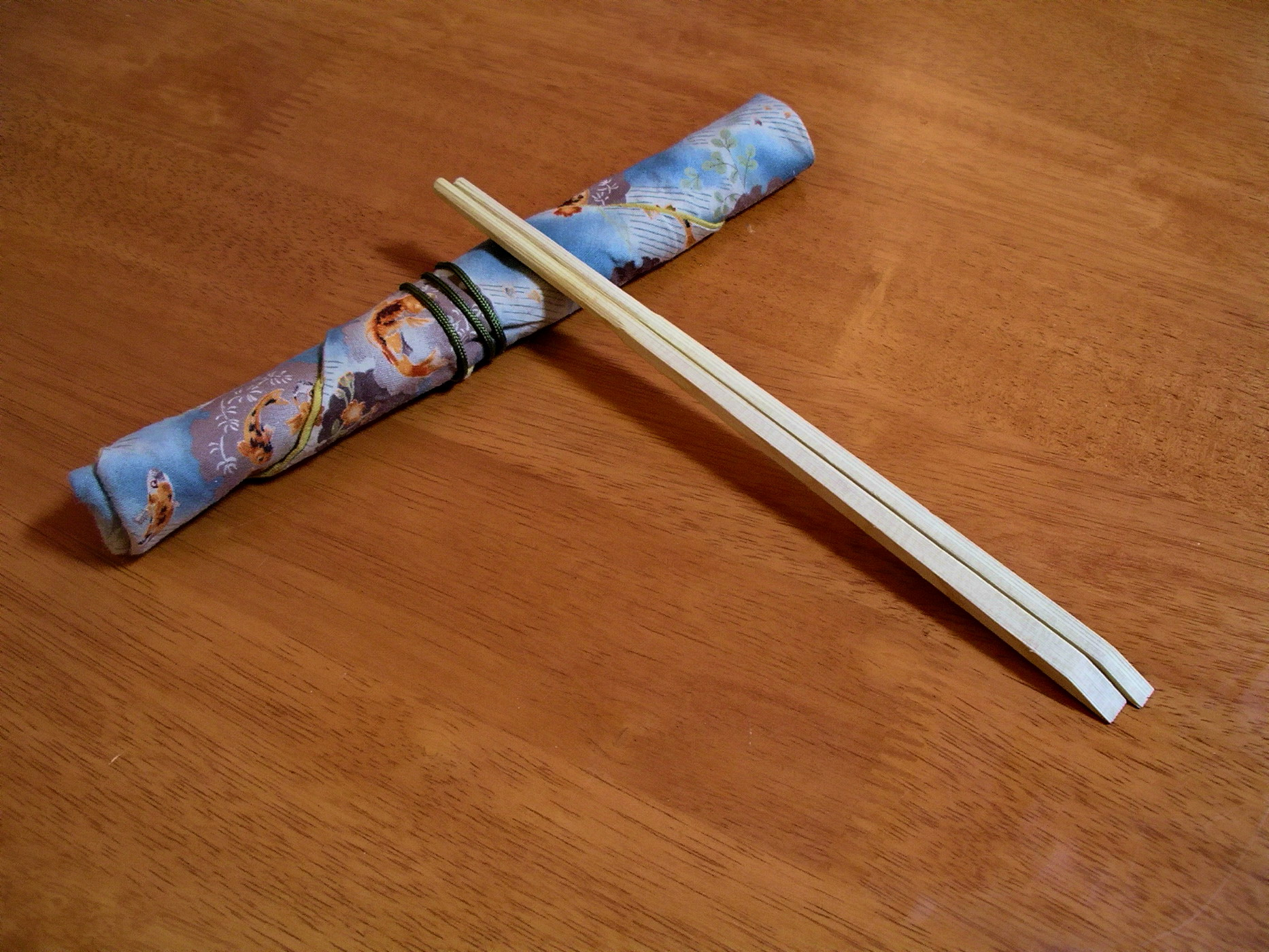 "Myhashi" portable chopsticks. About: Blue Lotus